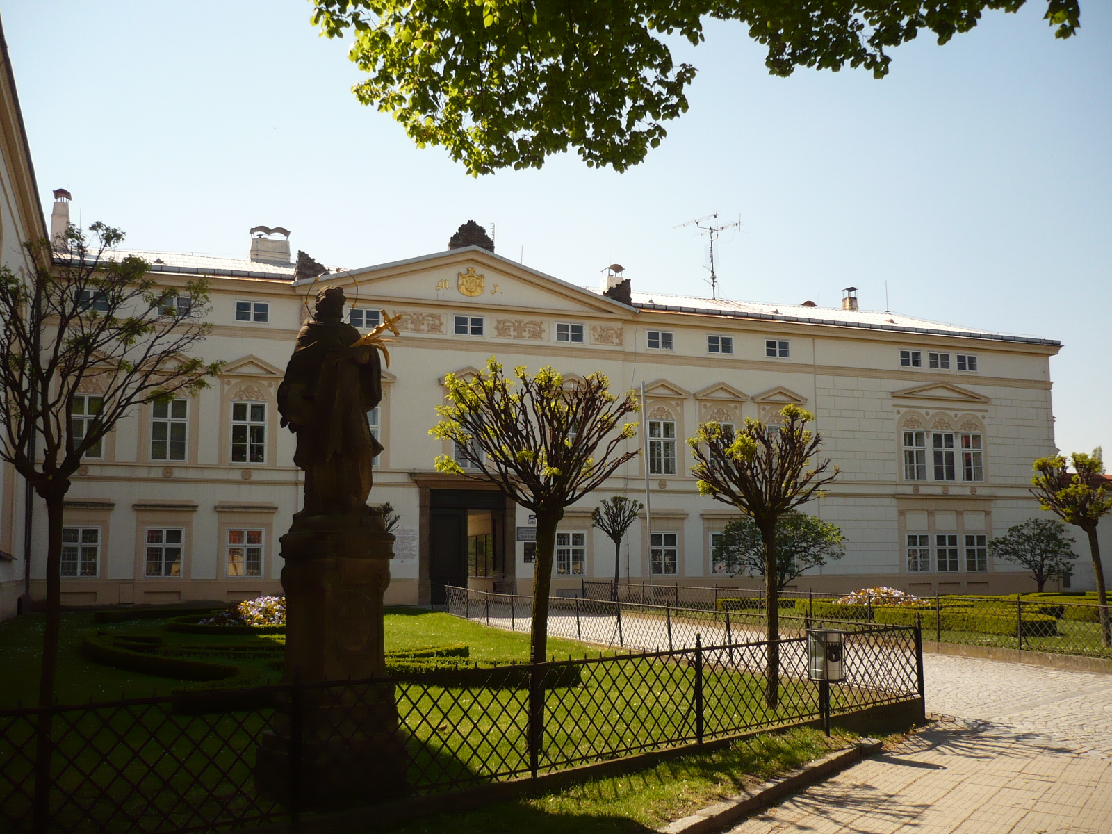 Kromeriz - Kromeriz – Flower garden